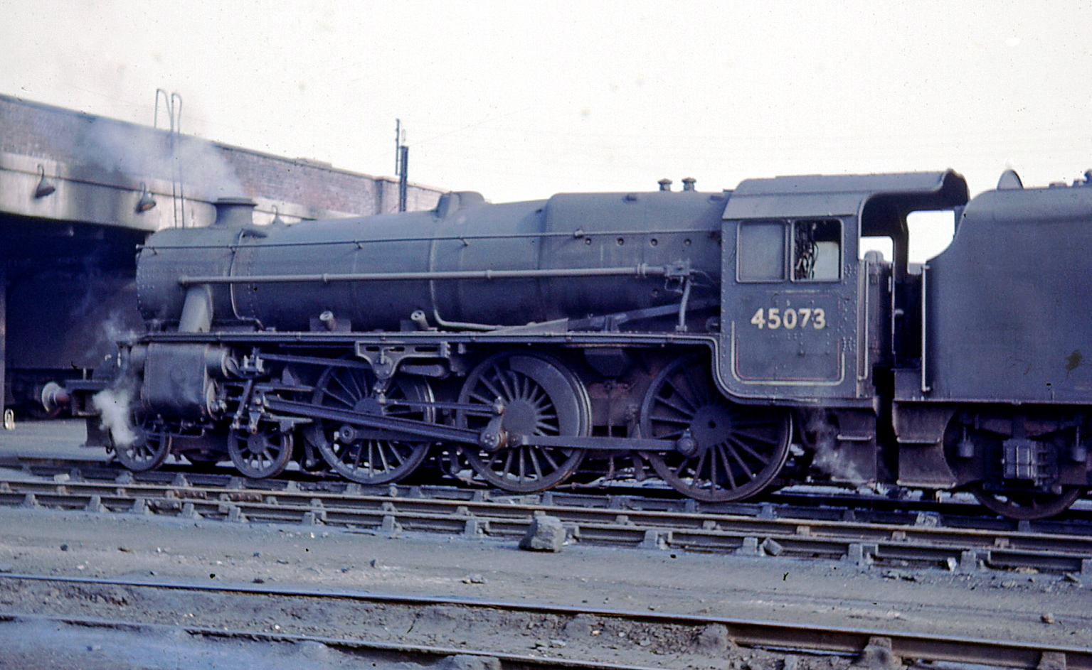 Stanier Black 5 4-6-0 No. 45073 at Rose Grove shed, spring 1968. Fitted with a domeless boiler.